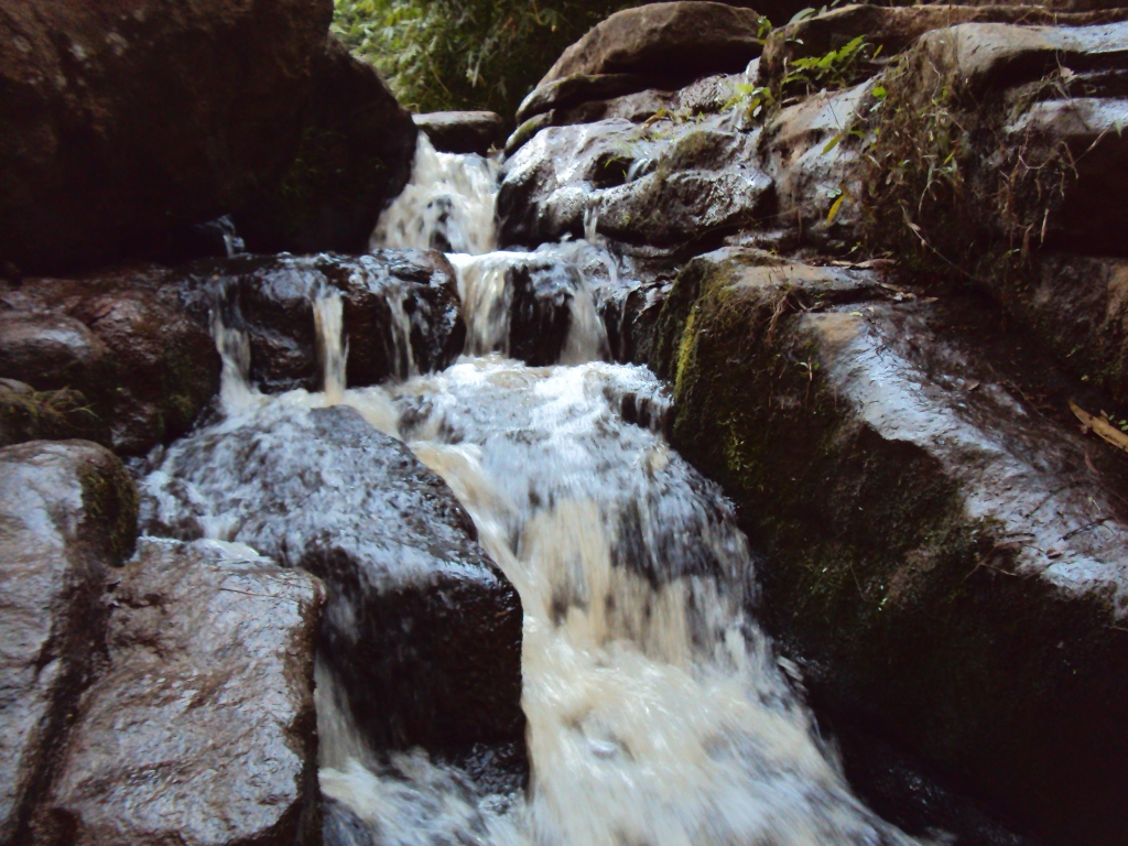 Natural view near campus